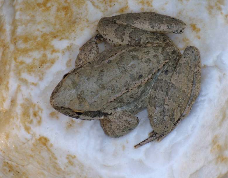 The Greek Stream Frog, Rana graeca.